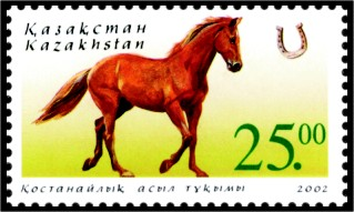 Stamp of Kazakhstan